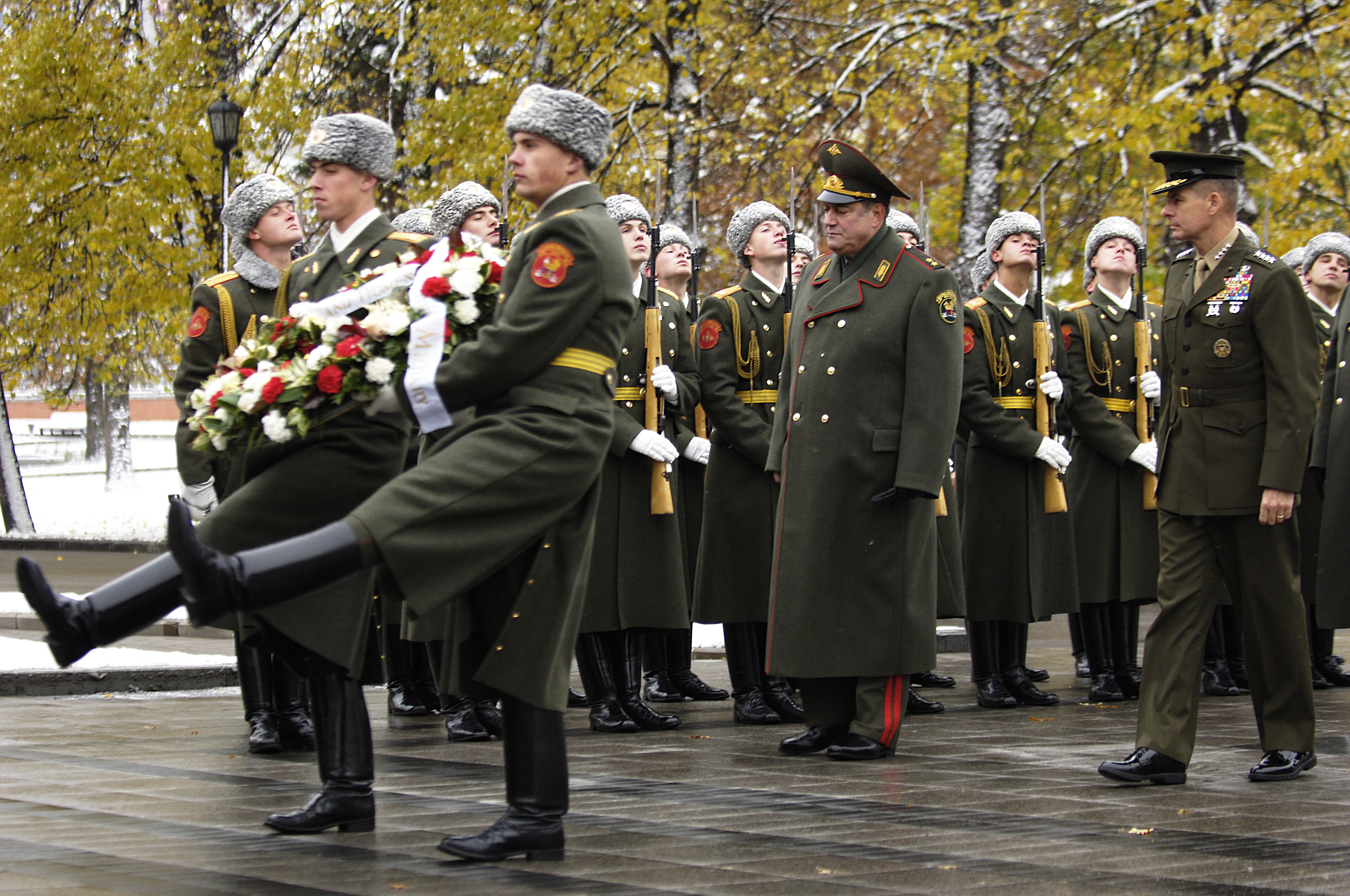 MOSCOW'S TOMB OF THE UNKNOWN": Chairman of the Joint Chiefs of Staff Marine General Peter Pace, far right, marches forward to lay a wreath as part of a ceremony at the tomb of the unknown soldier in Moscow on October 30, 2006.